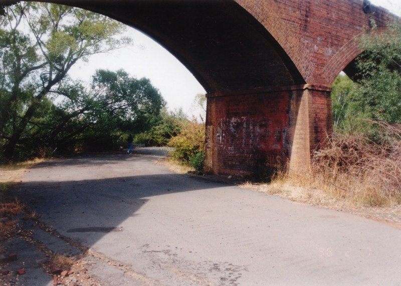 The famous underpass at the viaduct on the Longford street circuit